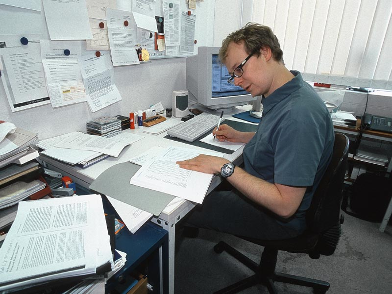 Prof. Haucap